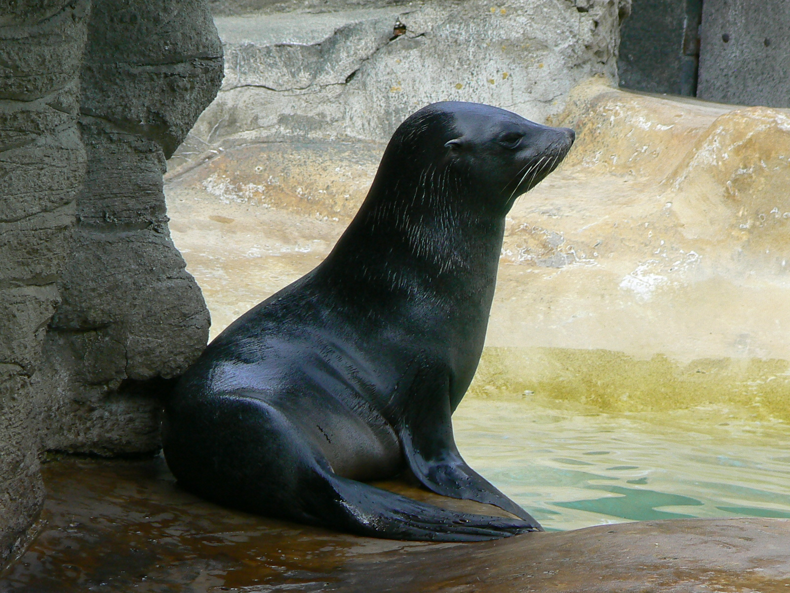 Arctocephalus australis/ south american fur seal/südamerikanischer seebär